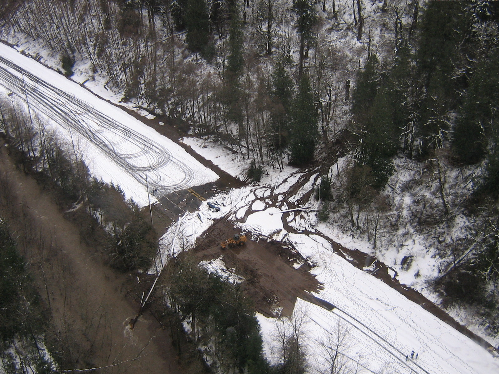 This aerial photo show the slide that is covering U.S. 26 in both directions east of Sandy. Jan. 2, 2009